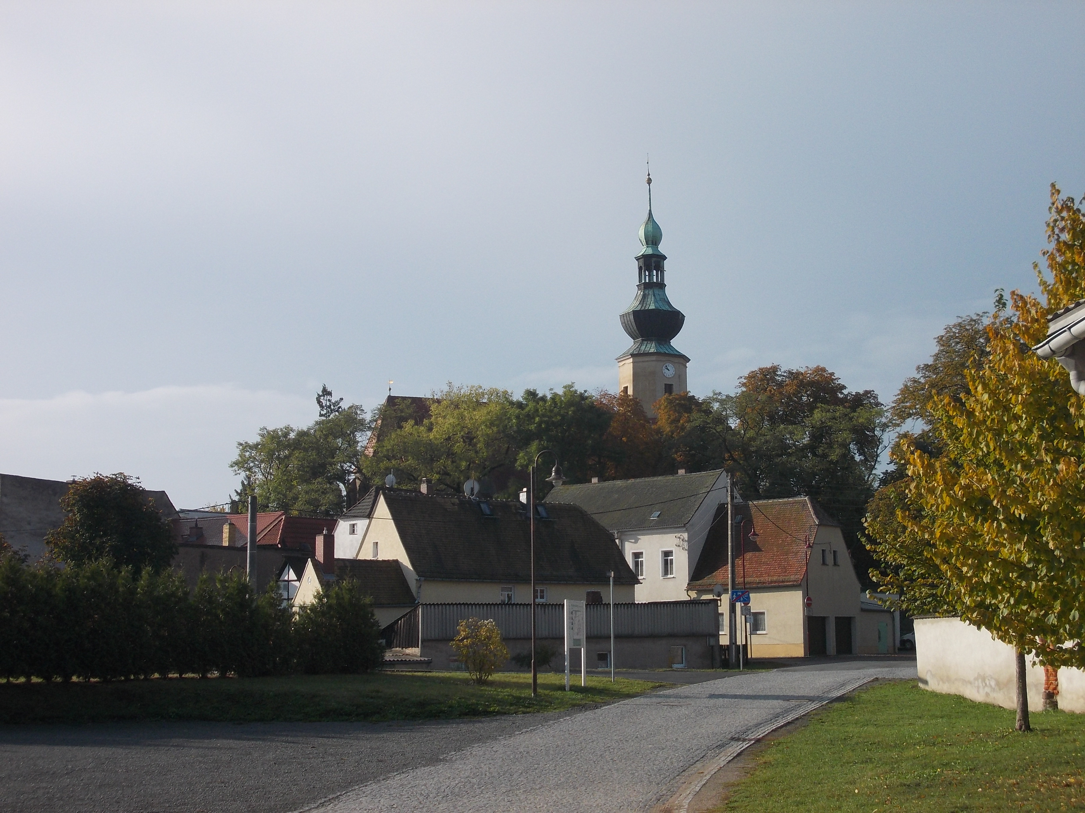 View of the church from the castle in Trebsen (Leipzig district, Saxony)